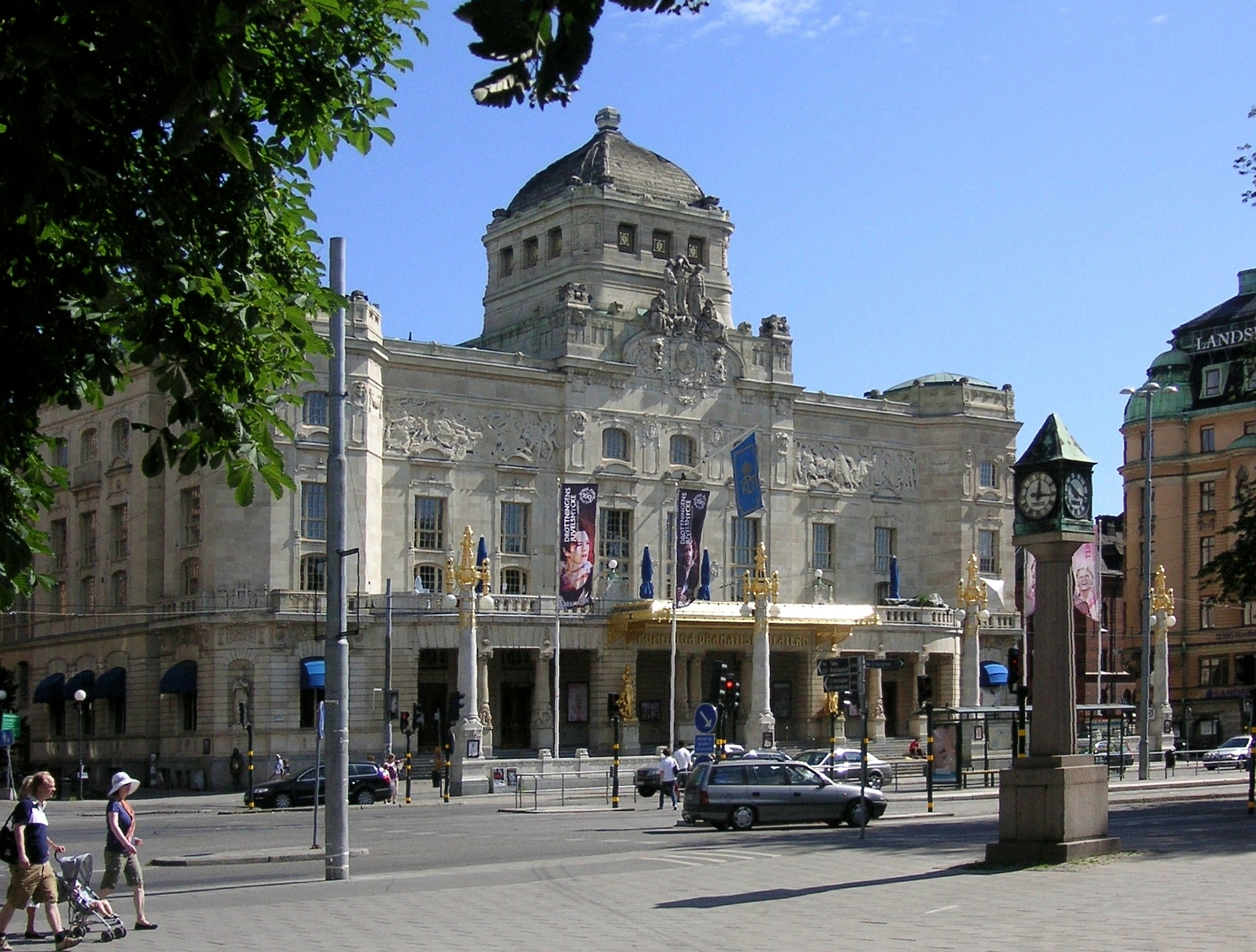 The Royal Dramatic theater at Nybroplan in Stockholm, Sweden.